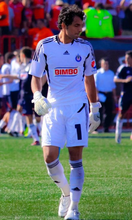 Guadalajara player Luis Ernesto Michel